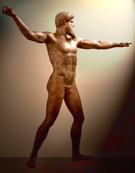 Poseidon (or Zeus) of Cape Artemision, National Archaeological Museum of Athens, Athens, Greece.